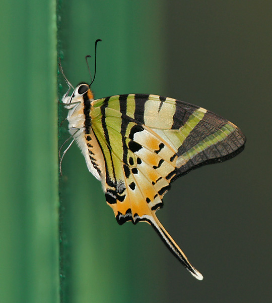 Fivebar Swordtail Graphium antiphates at 23 Mile near Jayanti in Buxa Tiger Reserve in Jalpaiguri district of West Bengal, India.